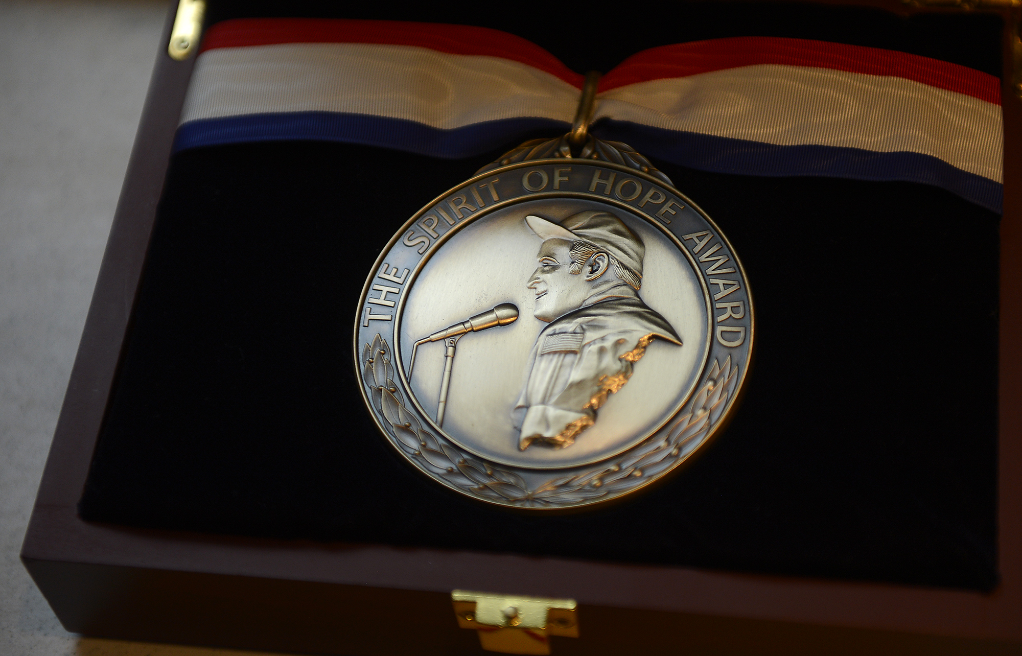 The "Spirit of Hope" medal awaits presentation to retired Air Force Tech. Sgt. Victor Pulido III by Secretary of the Air Force Deborah Lee James during a ceremony in the Pentagon, Dec. 11, 2014. The award is presented to individuals or organizations from each of the military services whose patriotism and service to members of the U.S. Armed Forces reflects the patriotism and service of the Legendary Bob Hope. (U.S. Air Force photo/Scott M. Ash)